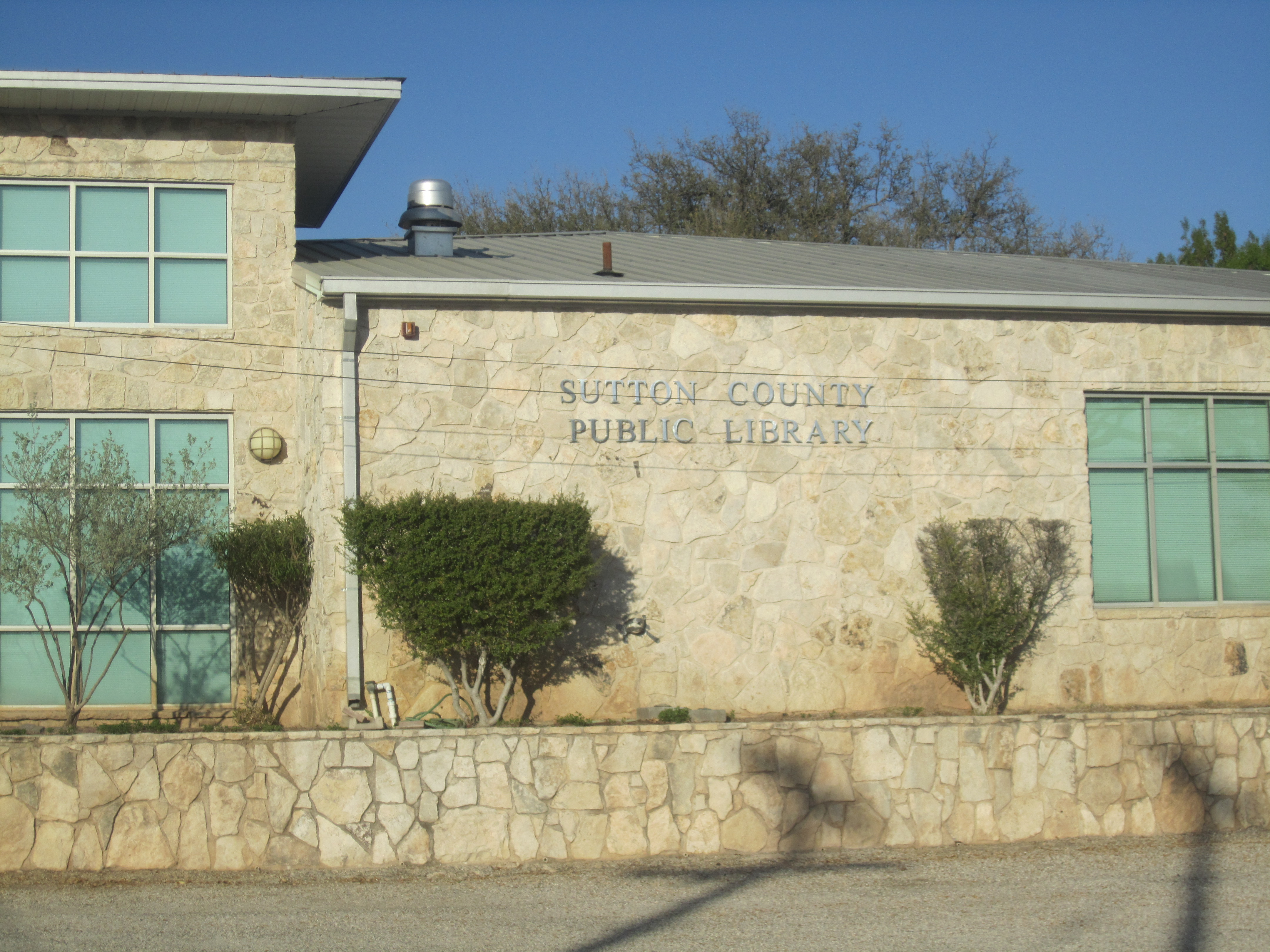 I took photo with Canon camera in Sonora, TX.